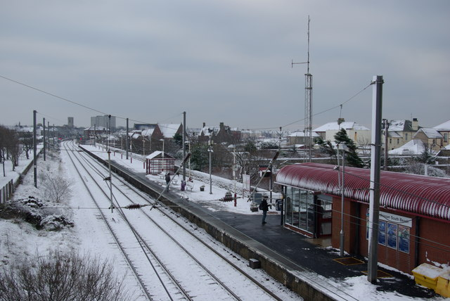 Ardrossan South Beach railway station